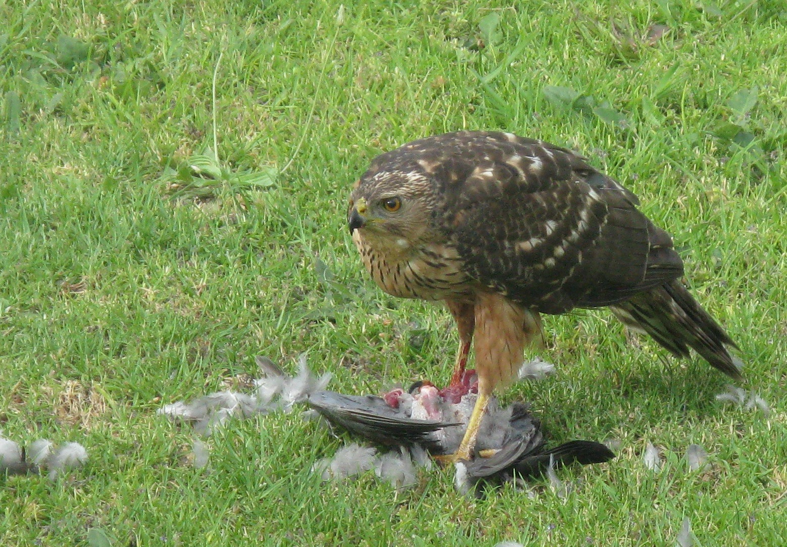 Accipiter melanoleucus. Black sparrowhawk. Immature female. Typical brown plumage before moult into adult black-and-white.